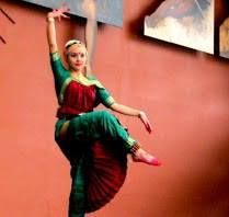 Cris Parvati is a virtuoso Bharatnatyam dancer .So, when she was in India she began her journey through Indian classical dance at Nateshvari dance gurukul. In brazil she meet Joaquim Andrade Bharata Natyam master guru and took lessons from him.She believes the Bharatanatyam is not about titles and presentations. She believes the Bharata Natyam must be in the air we breathe, the art must be run through your veins, it's a lifestyle. She lives in Curitiba Brazil.